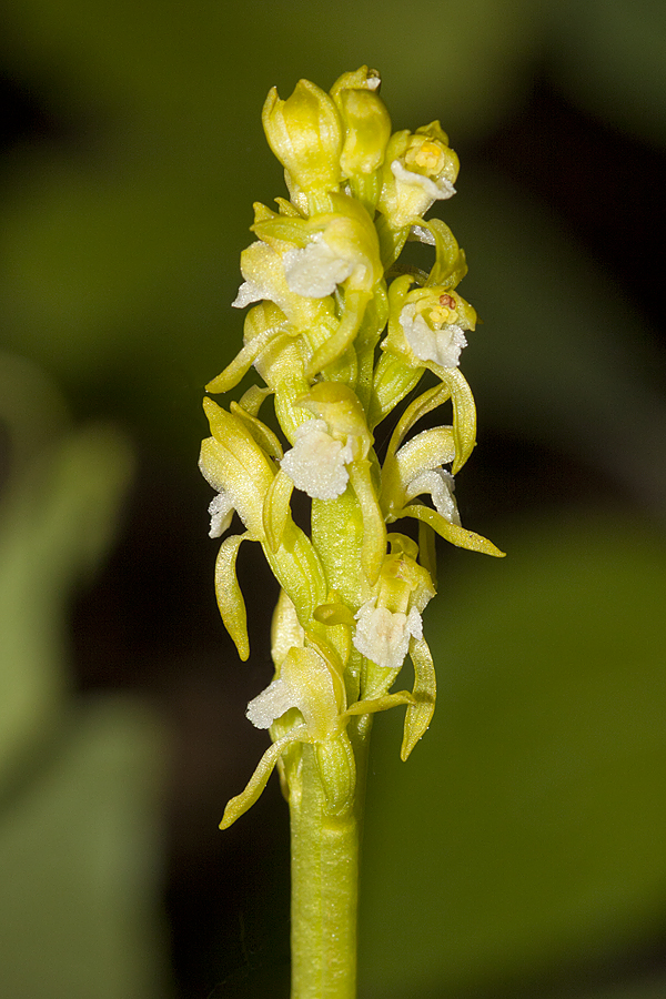 Corallorhiza trifida. An orchid. Two Medicine Lake, Glacier National Park, USA. July 16